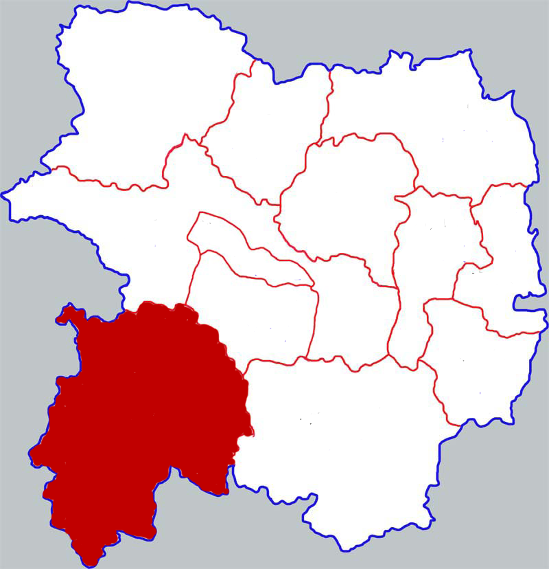 Location of Feng county in Baoji city, China